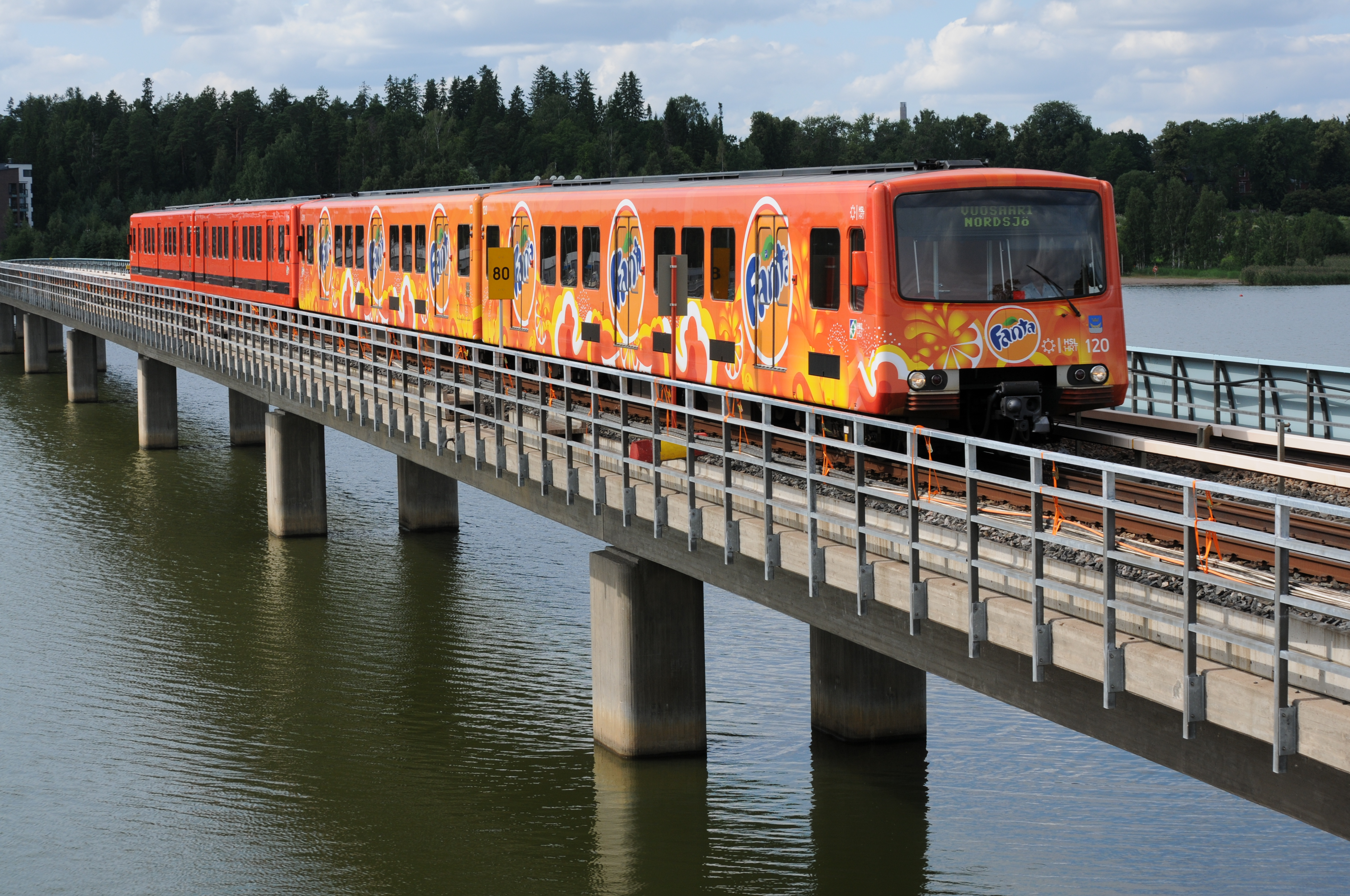 HKL Class M100 metro train on Vuosaari metro bridge in Helsinki, Finland.